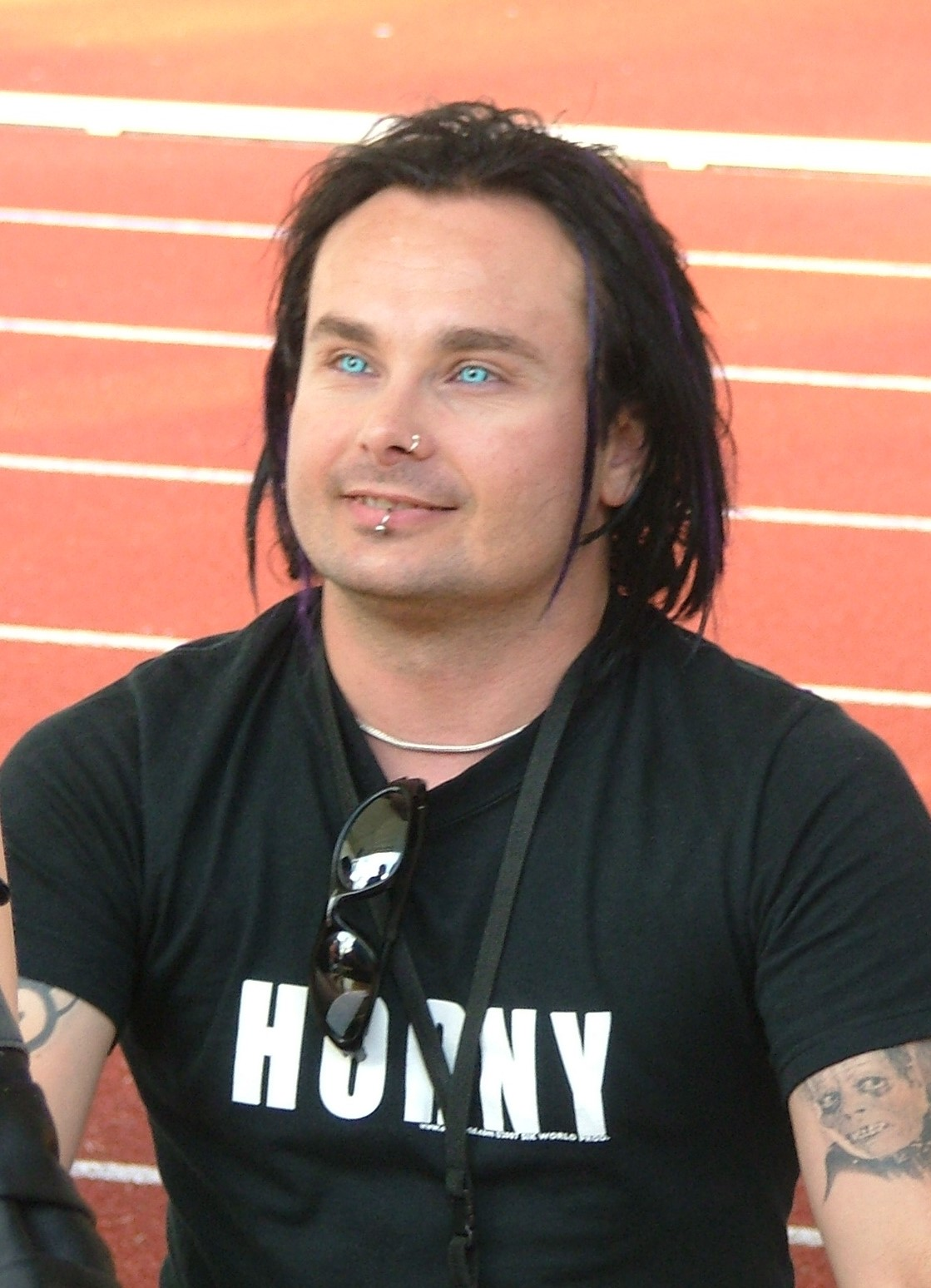 Dani Filth of english metal band Cradle of Filth in Kuopio at Rockcock-musicfestival